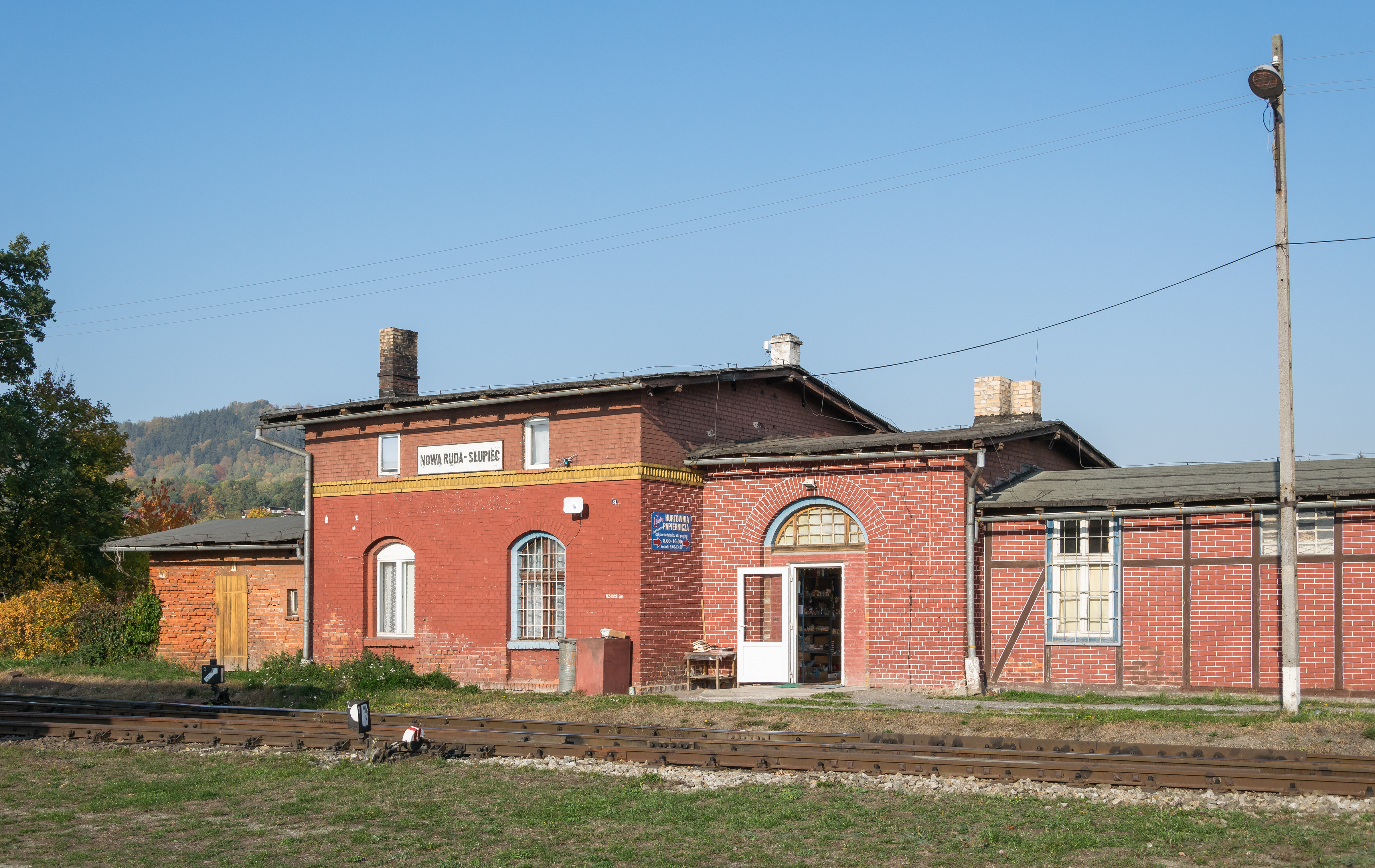 Nowa Ruda Słupiec train station